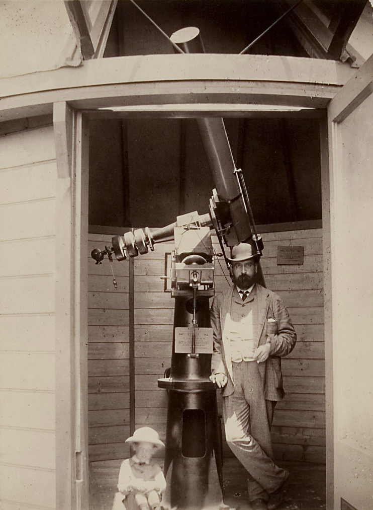 Photographic print of C J Merfield in his private observatory